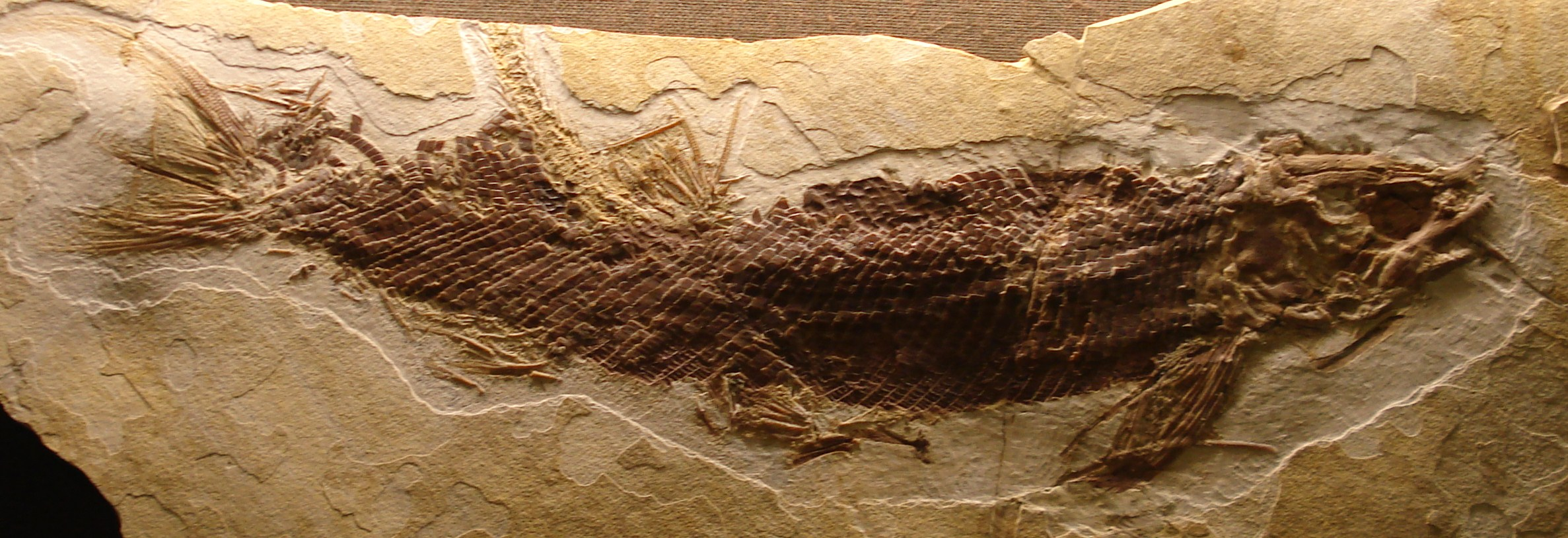 fossil of furo (eugnathus)